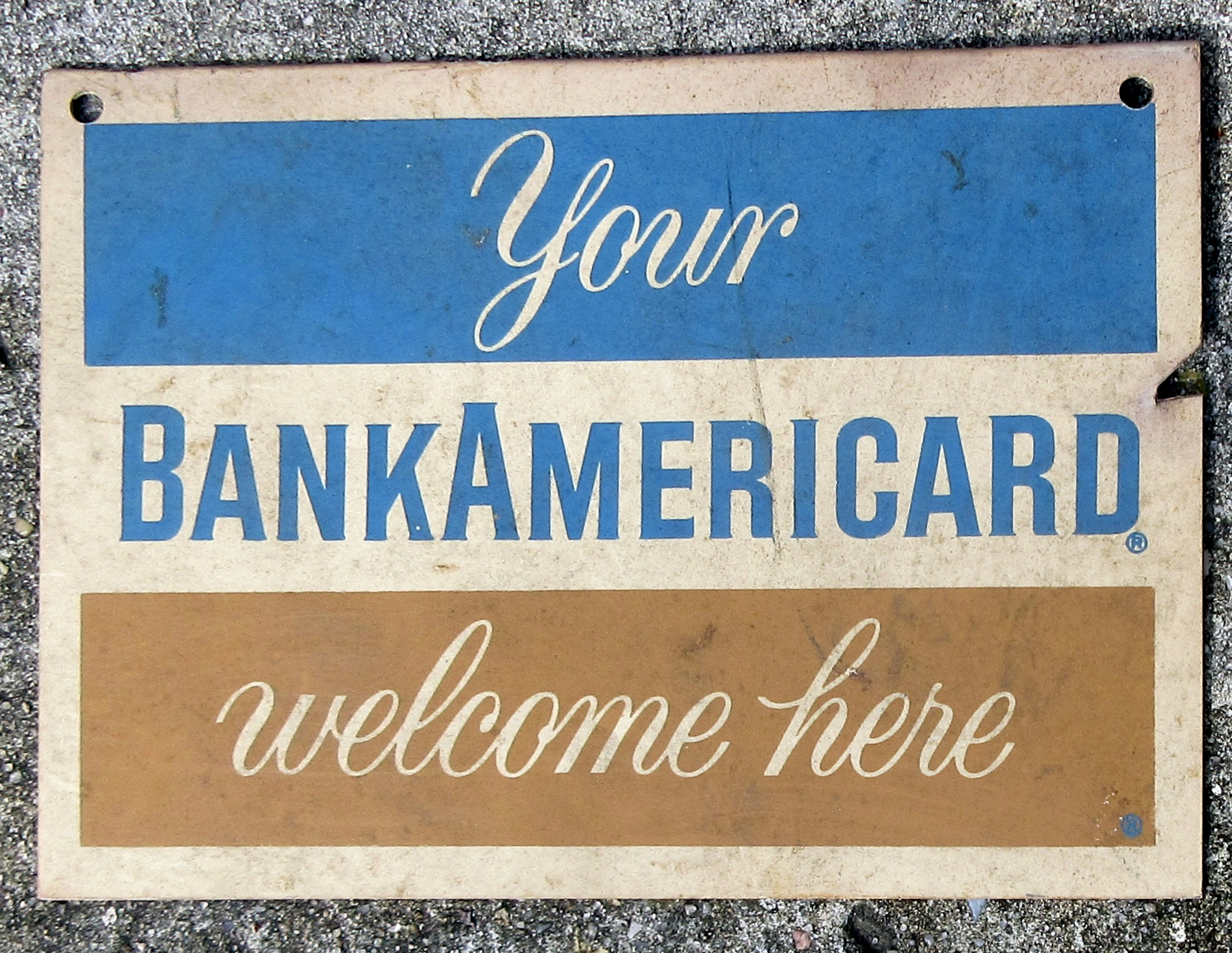 Old sign, "Your Bankamericard Welcome Here". Photo by Infrogmation of New Orleans, February, 2018. Free reuse with author attribution in accordance with any of the licenses listed by the author/photographer. Reuse without photo attribution is a violation of copyright. This work includes material that may be protected as a trademark in some jurisdictions. If you want to use it, you have to ensure that you have the legal right to do so and that you do not infringe any trademark rights. See our general disclaimer. This tag does not indicate the copyright status of the attached work. A normal copyright tag is still required. See Commons:Licensing for more information.